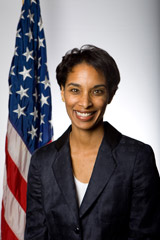 Cecilia Rouse is a member of the Council of Economic Advisers.